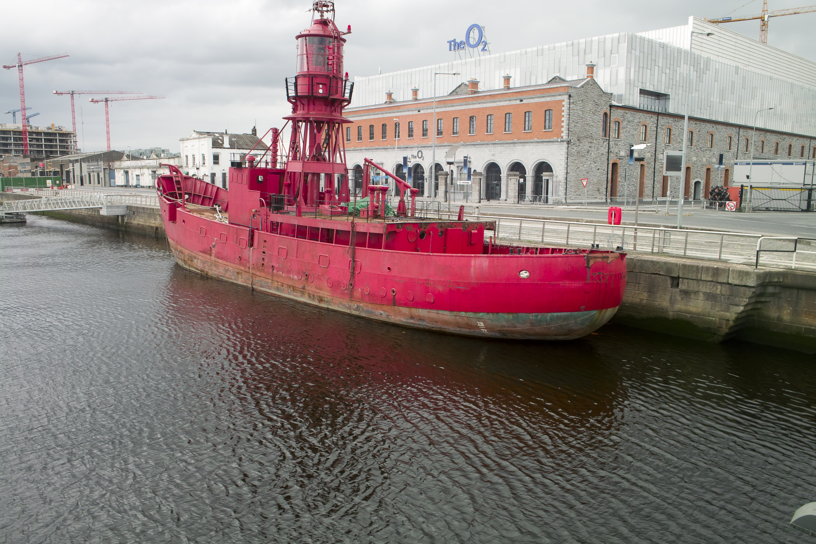 The Kittiway (built 1957/59) moored in Dublin Docklands near Point Depot, Ireland. It is a disused lightships previously of the Irish Lighthouse Service.